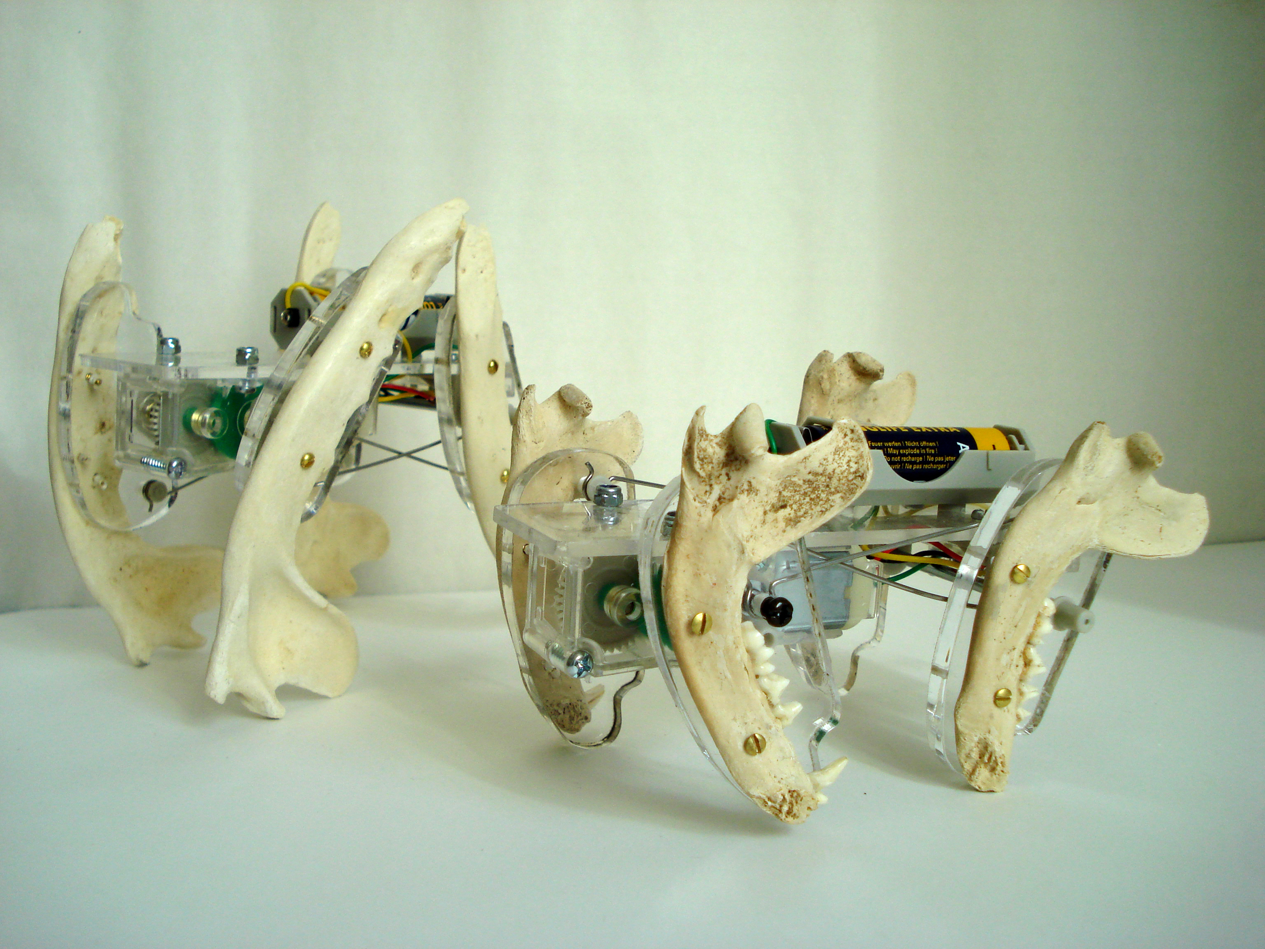 Mechanical animals made from bones, plexi, and electronics. A project started at SVA in New York and finished in Berlin 2010.